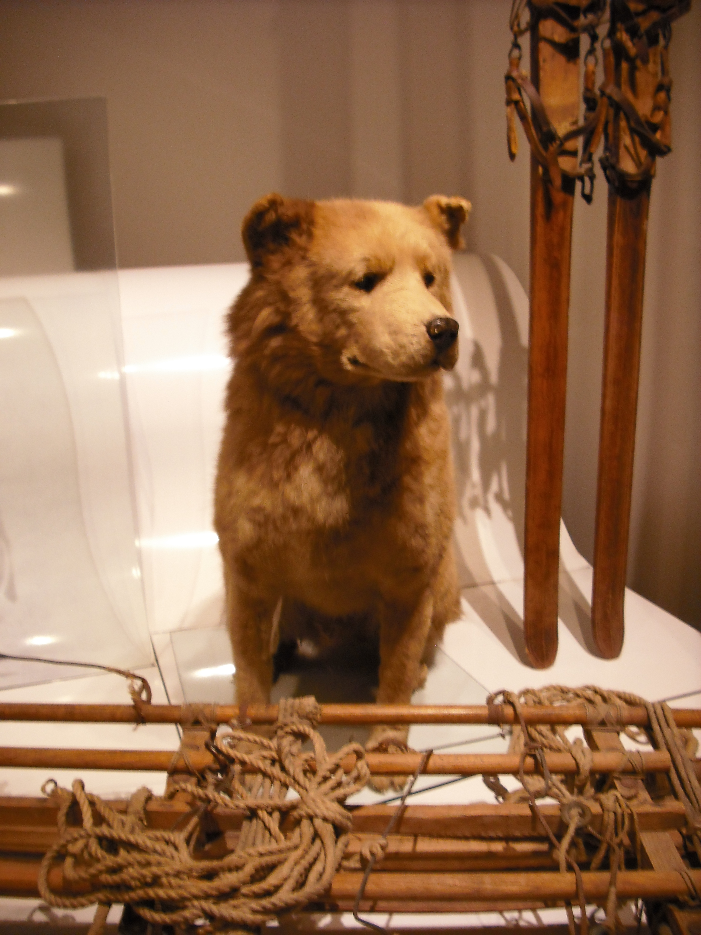 Amudsen's sled dog Obersten at the Holmenkollen Ski Museum